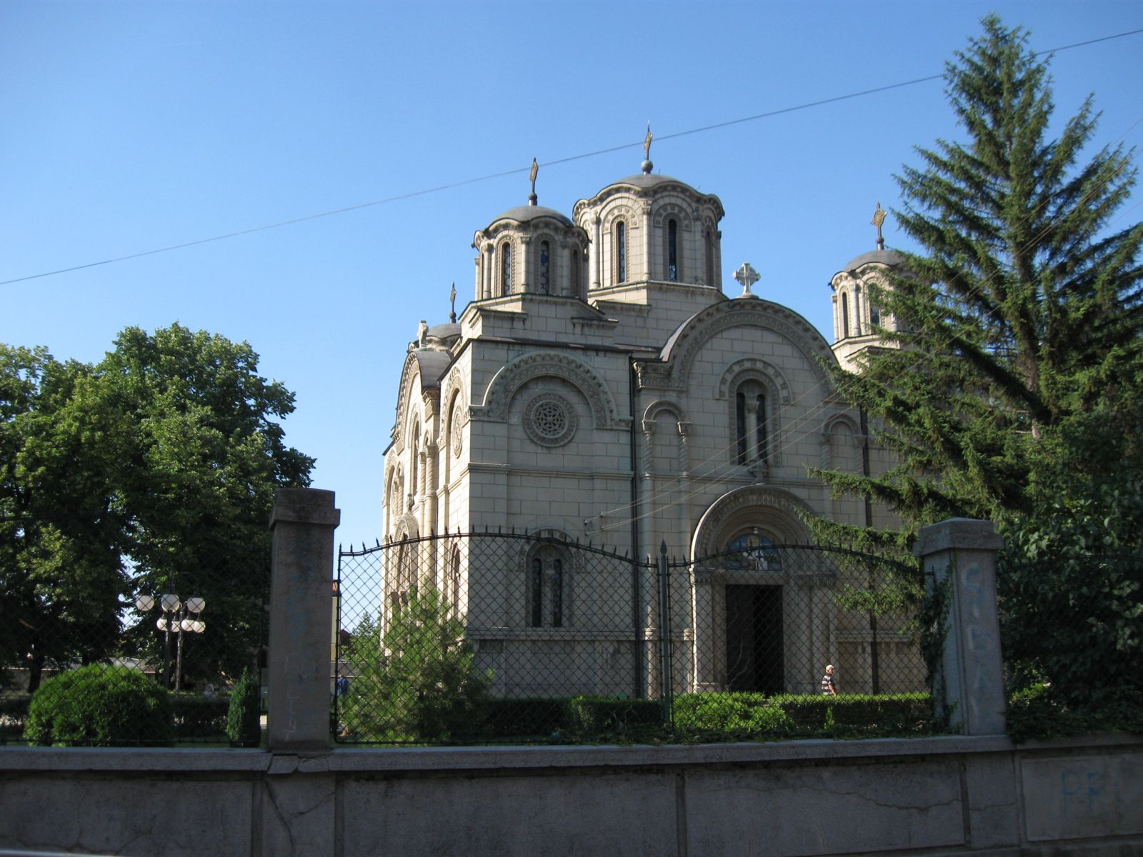 City Church